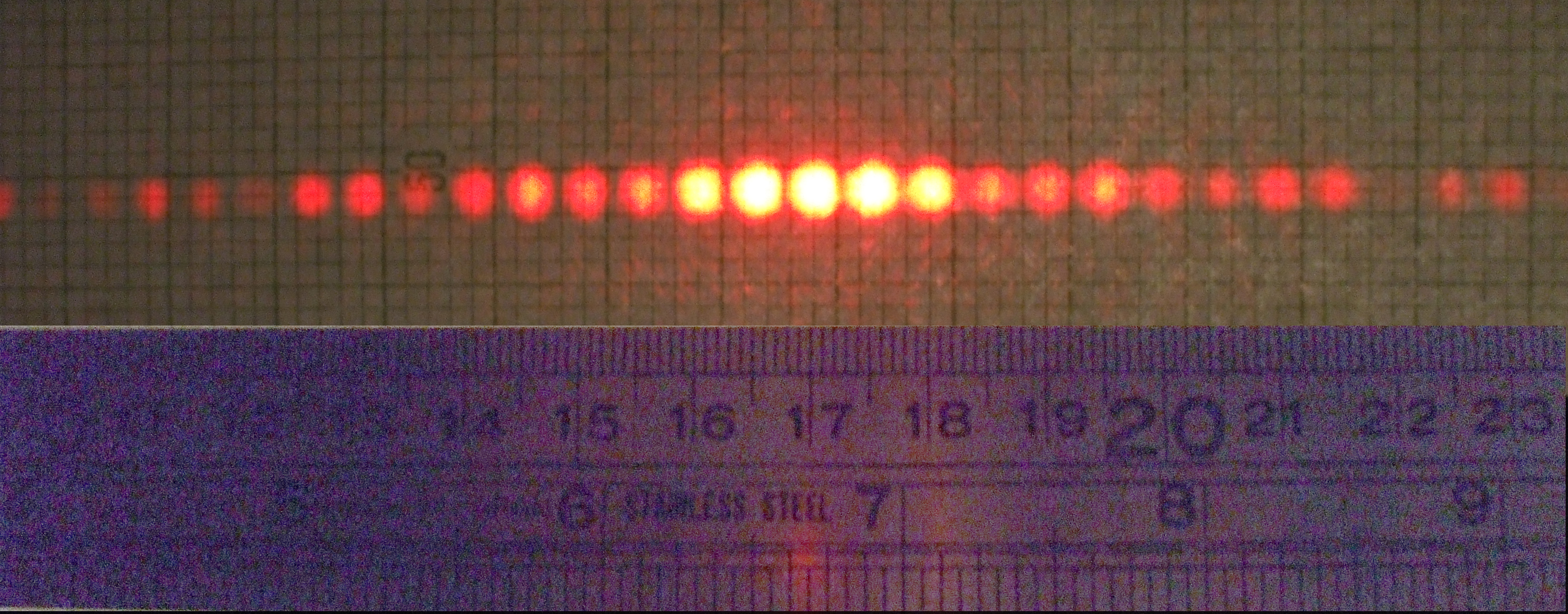 A diffraction pattern of a 633 nm laser with 1mW power through a grid of 150 slits, 0.0625 mm each, 0.25 mm separations between their centers. This picture was taken in the teaching labs of the Ben Gurion University Physics Department.